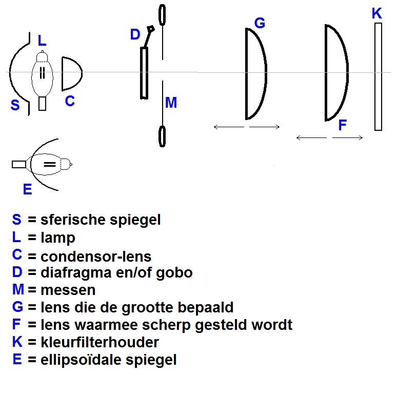 Drawing of the most important parts of a profilespot as used in the theatre